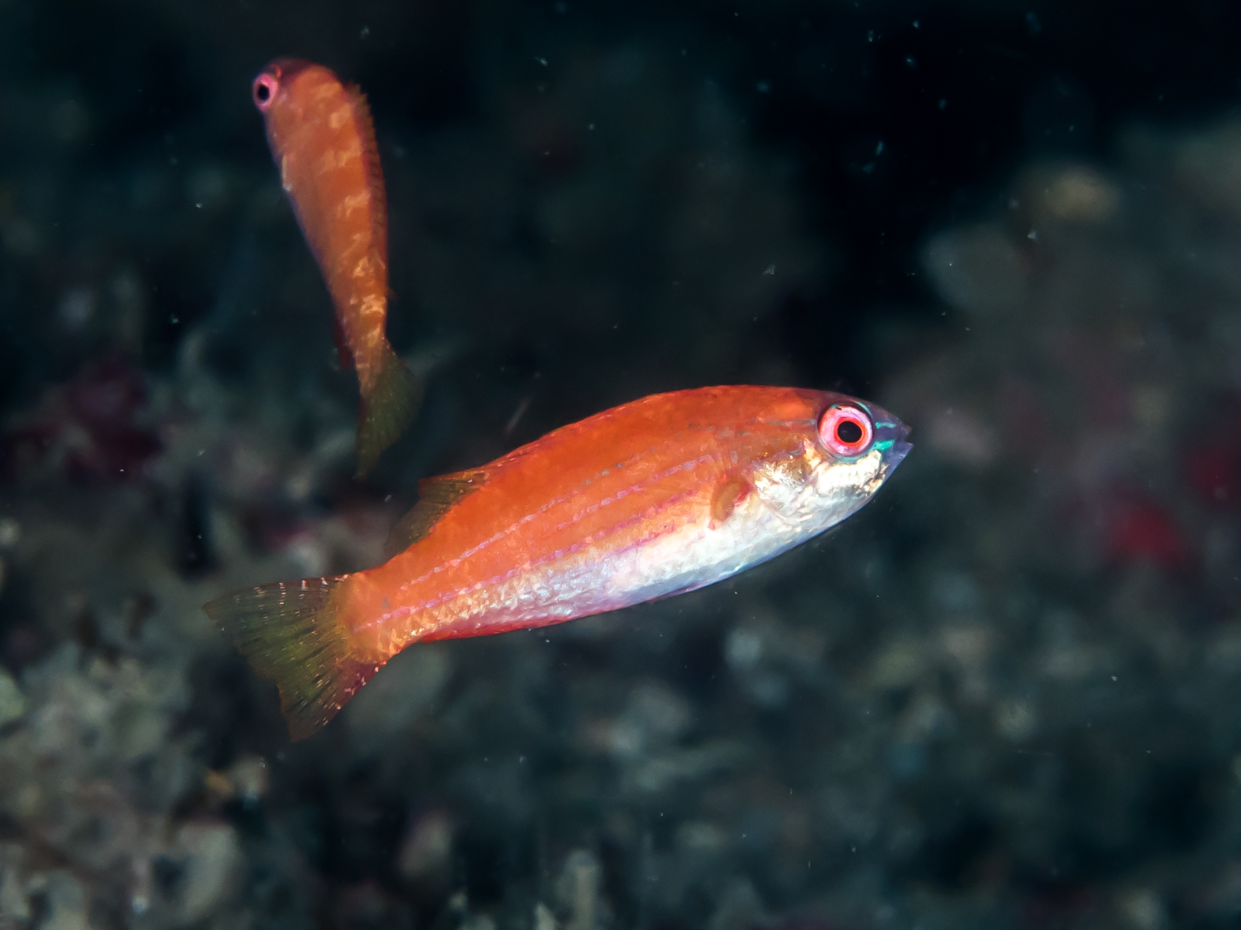 Lembeh, Indonesia - Paine's flasher wrasse (Paracheilinus paineorum)